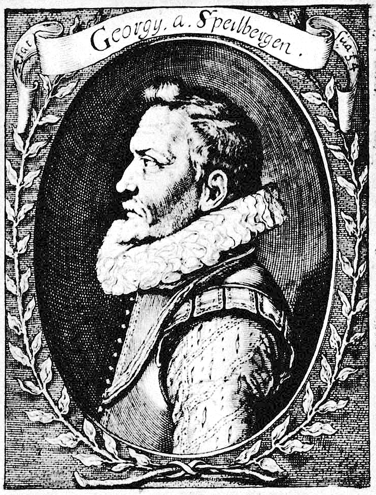 Portrait of Joris van Spilbergen, Dutch explorer. (1568 - 1620)